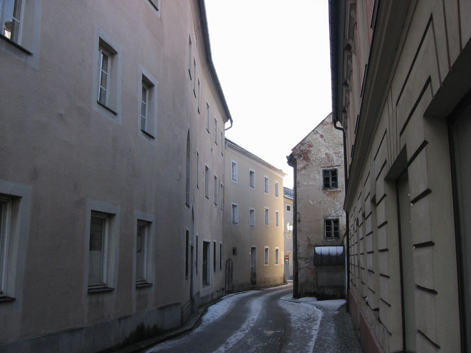 Houses 1 to 3 in Heiligengeist Gasse (Holy Spirit little street), Freistadt, Upper Austria.